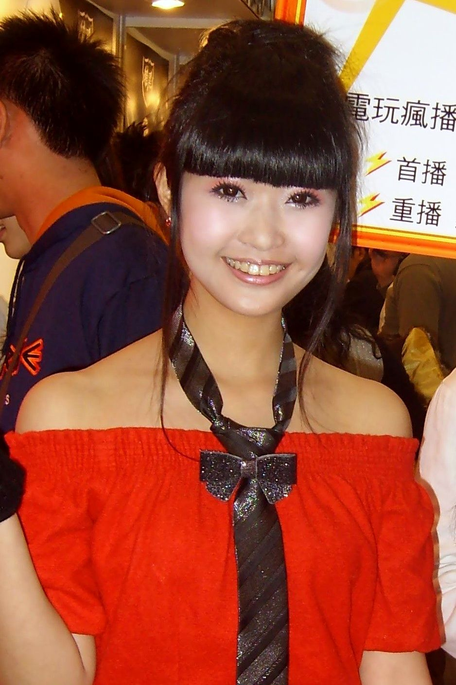 2008 Taipei Game Show: Akina Su-chin Chen at Insrea booth.